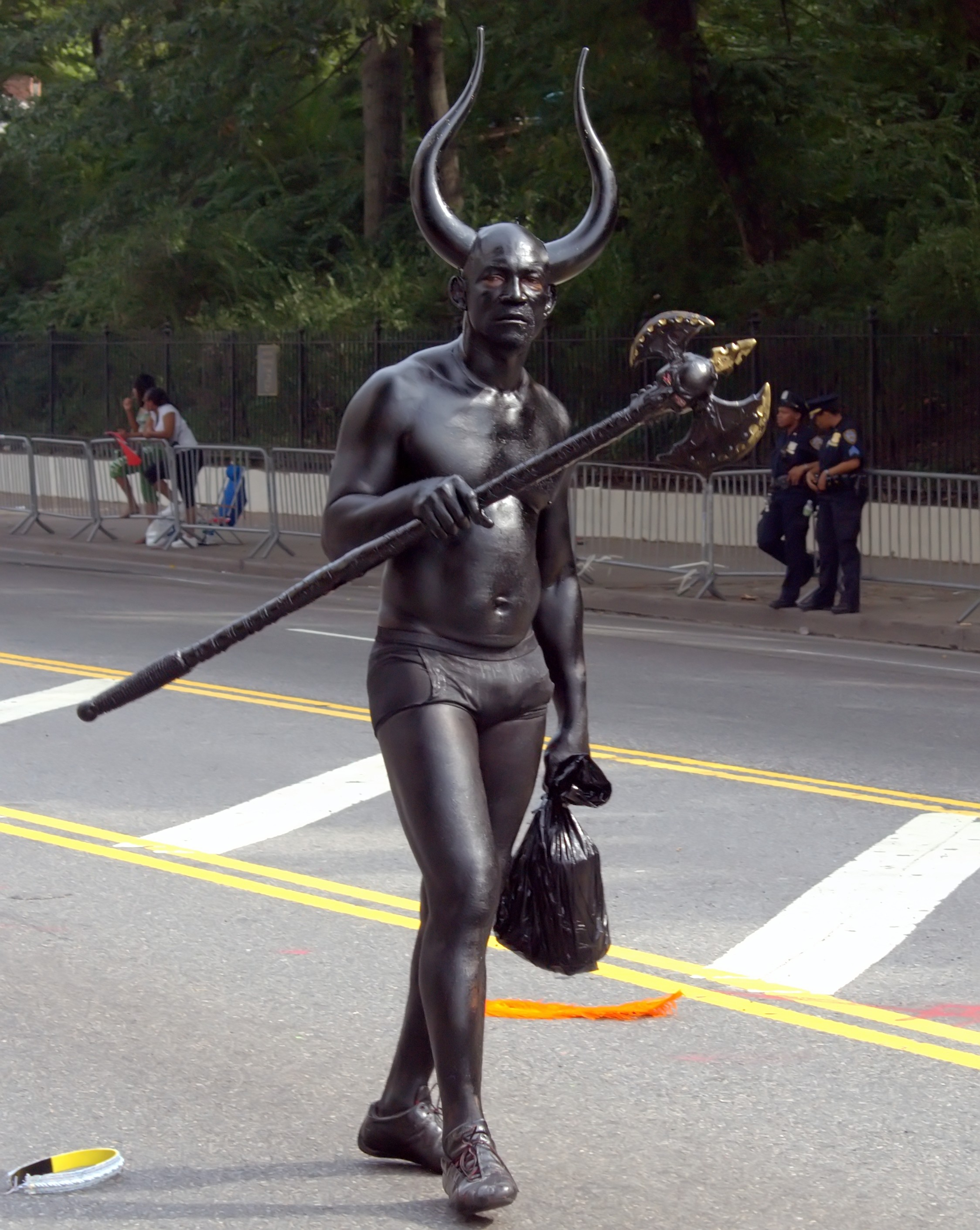 Parade marcher at the West Indian Day Parade in New York City. Photographer's blog post about photo and event